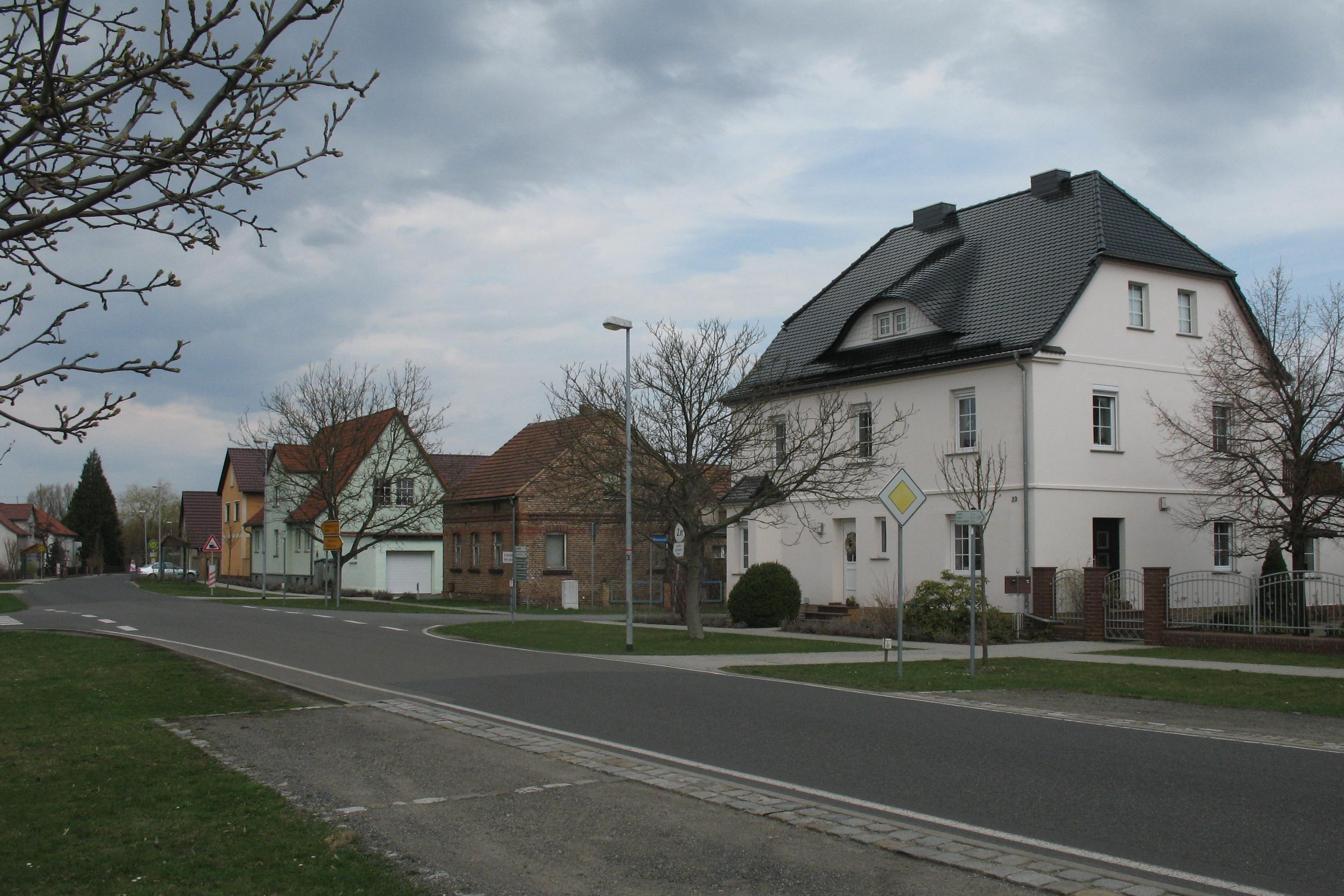 Main road in Schwarzbach in Brandenburg, Germany